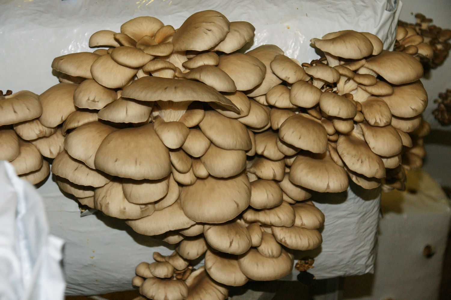 Pleurotus ostreatus